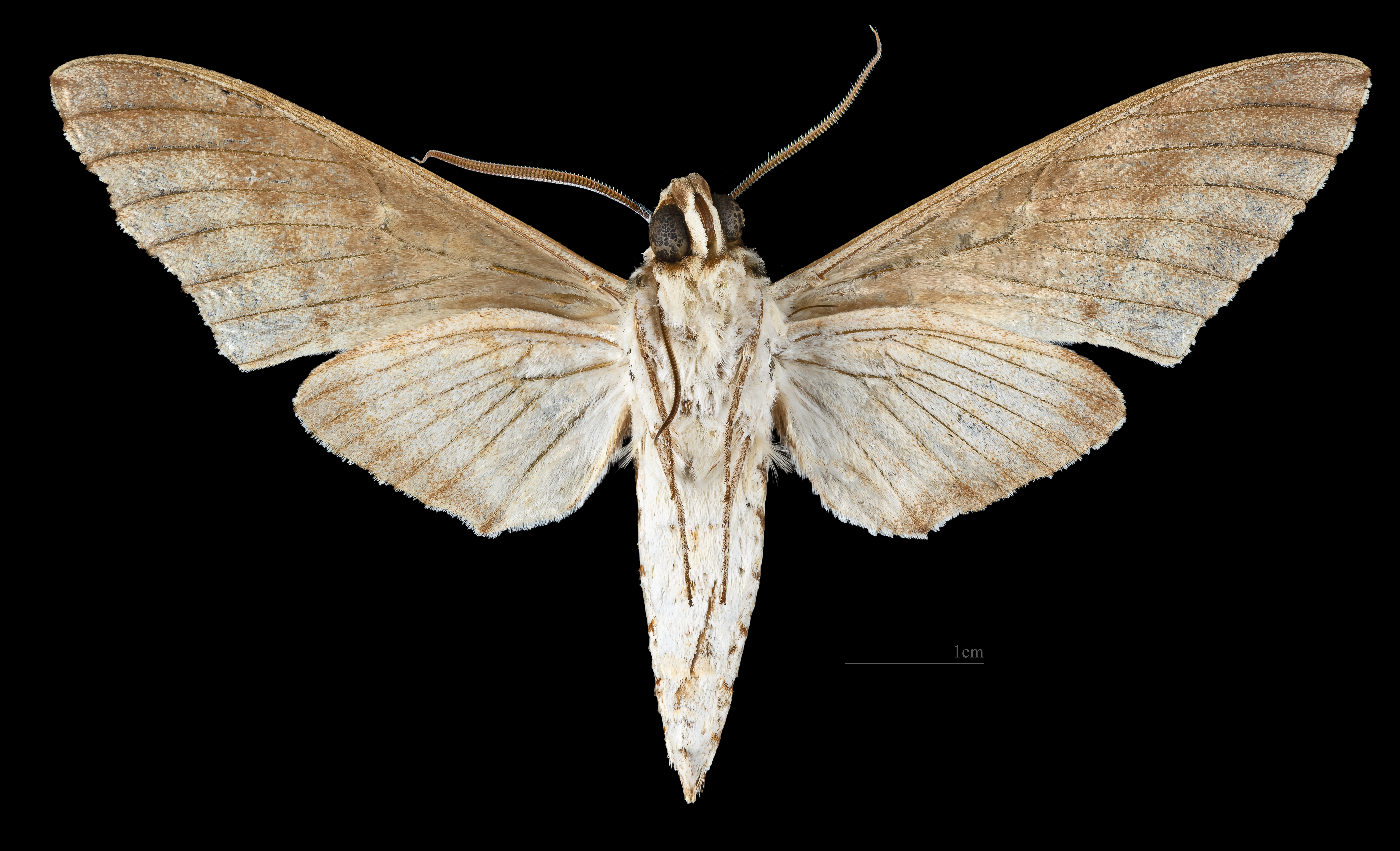 Manduca franciscae - △ Ventral side Collection of the Mathematician Laurent Schwartz